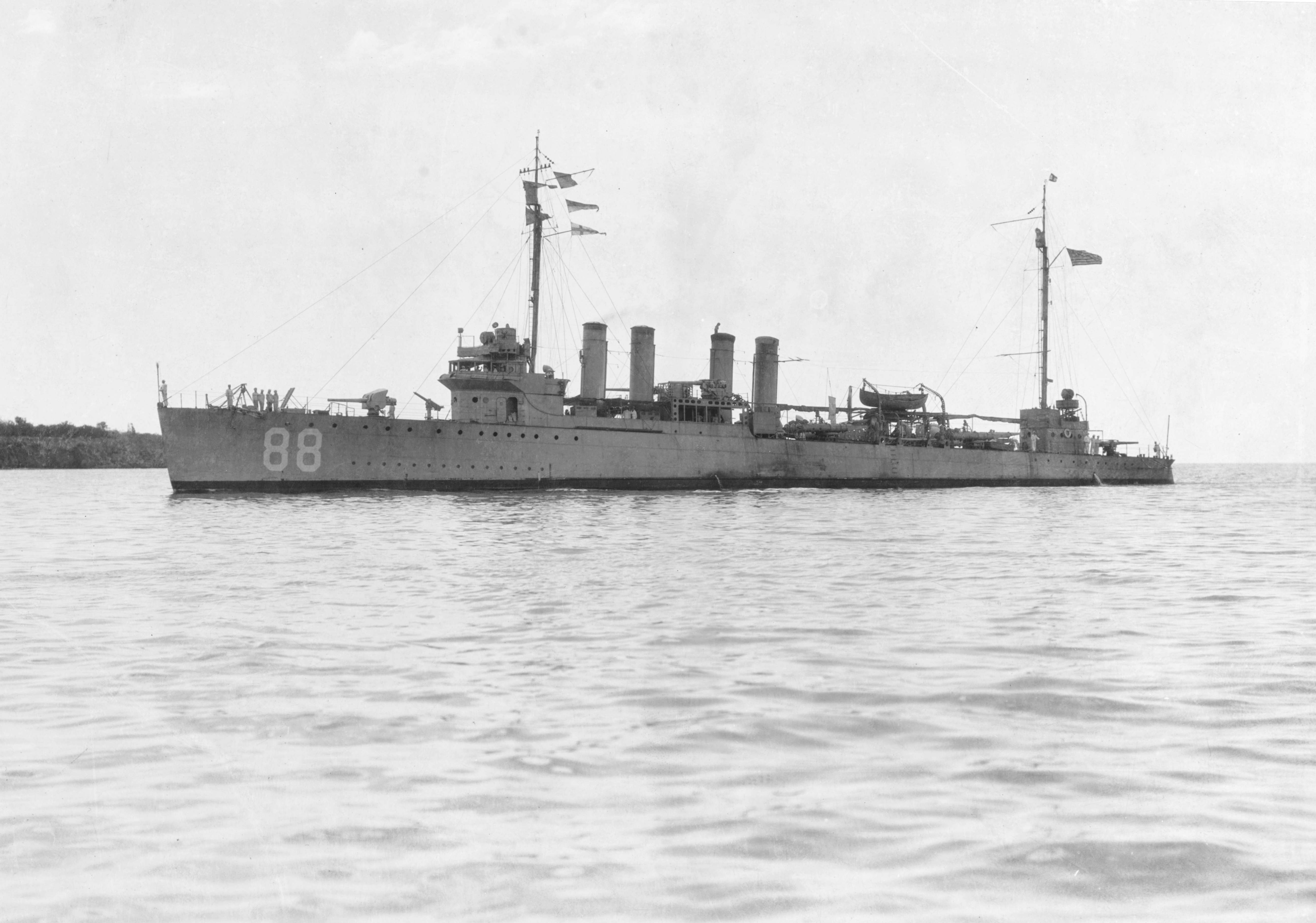 The U.S. Navy destroyer USS Robinson (DD-88) at Guantanamo Bay, Cuba, in January 1920.